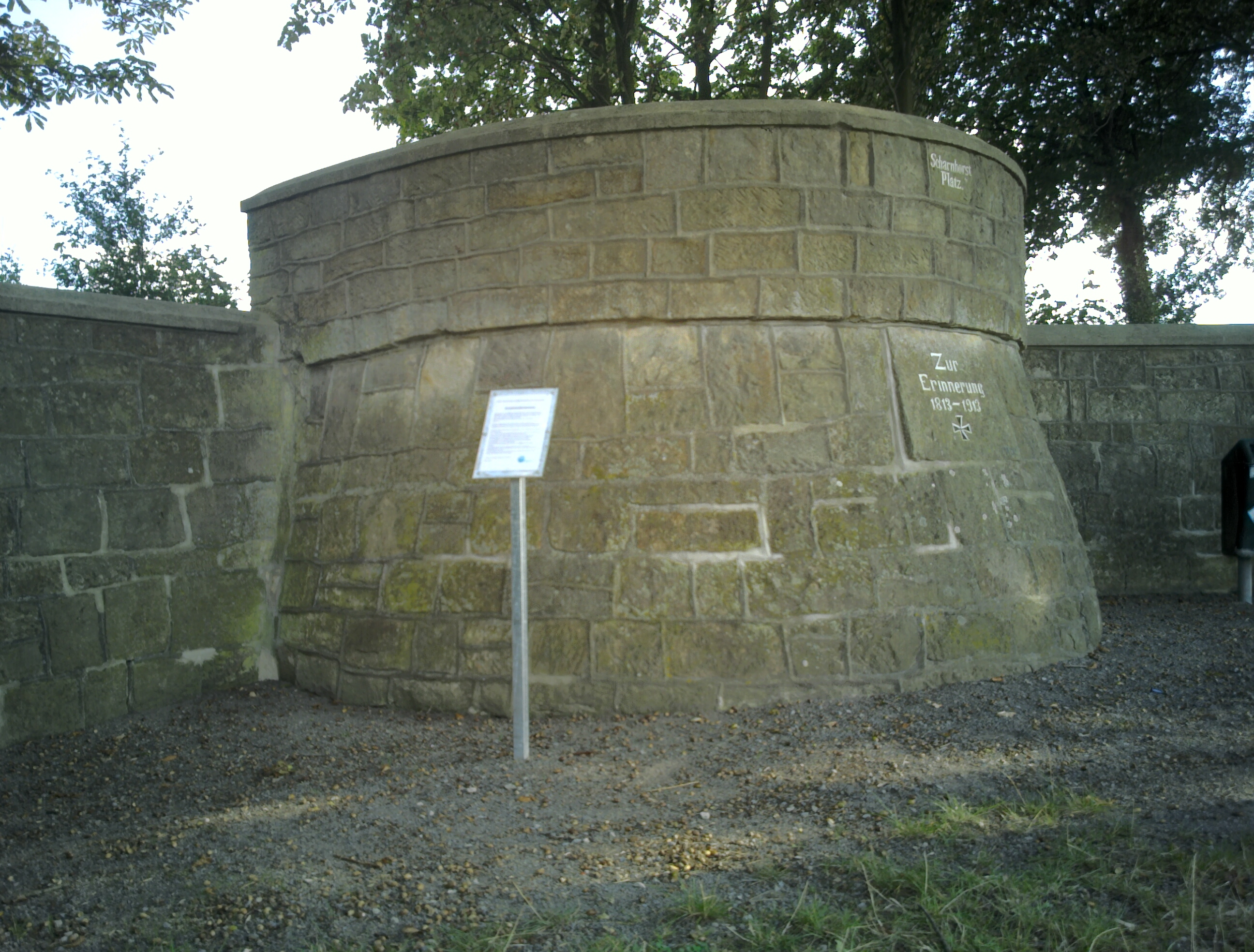 Scharnhorst memorial at Hülsebrinkstraße in Wennigsen (Deister) as seen from north-east